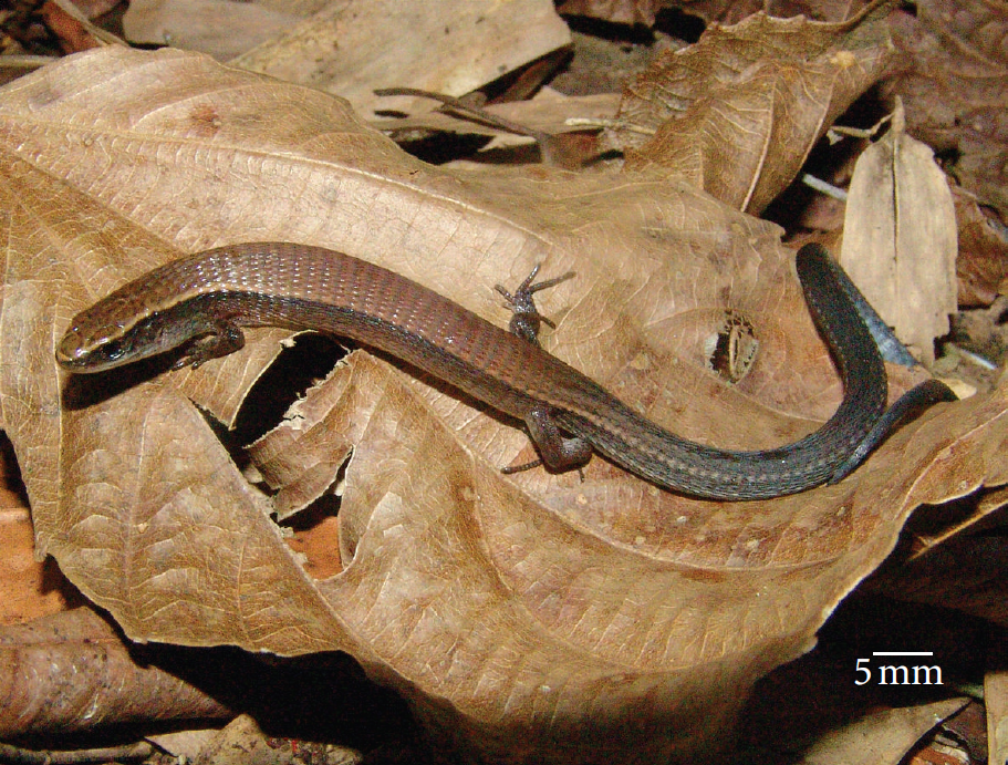 Colobodactylus taunayi on leaf litter